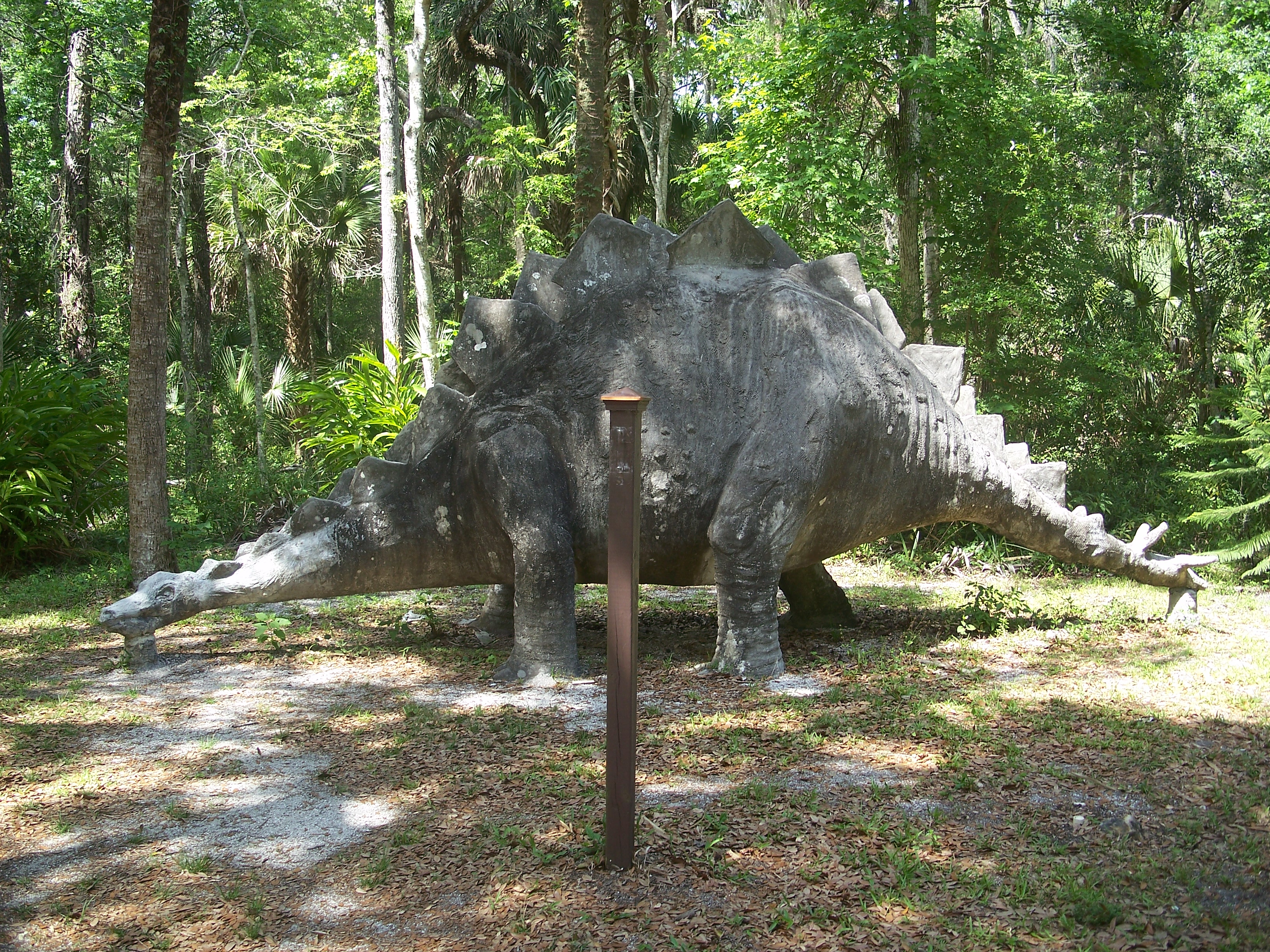 Port Orange, Florida: Dunlawton Plantation and Sugar Mill: Dinosaur statue, left from when this was Bongoland, a theme park